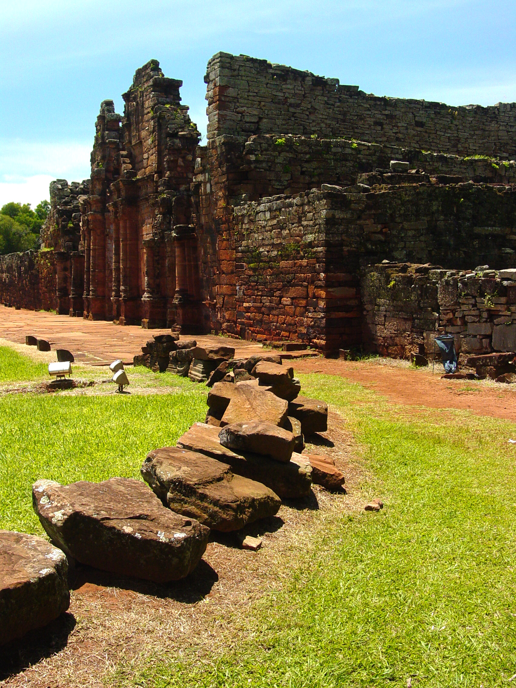 San Ignacio Jesuit Mission, Argentina. January 2004.